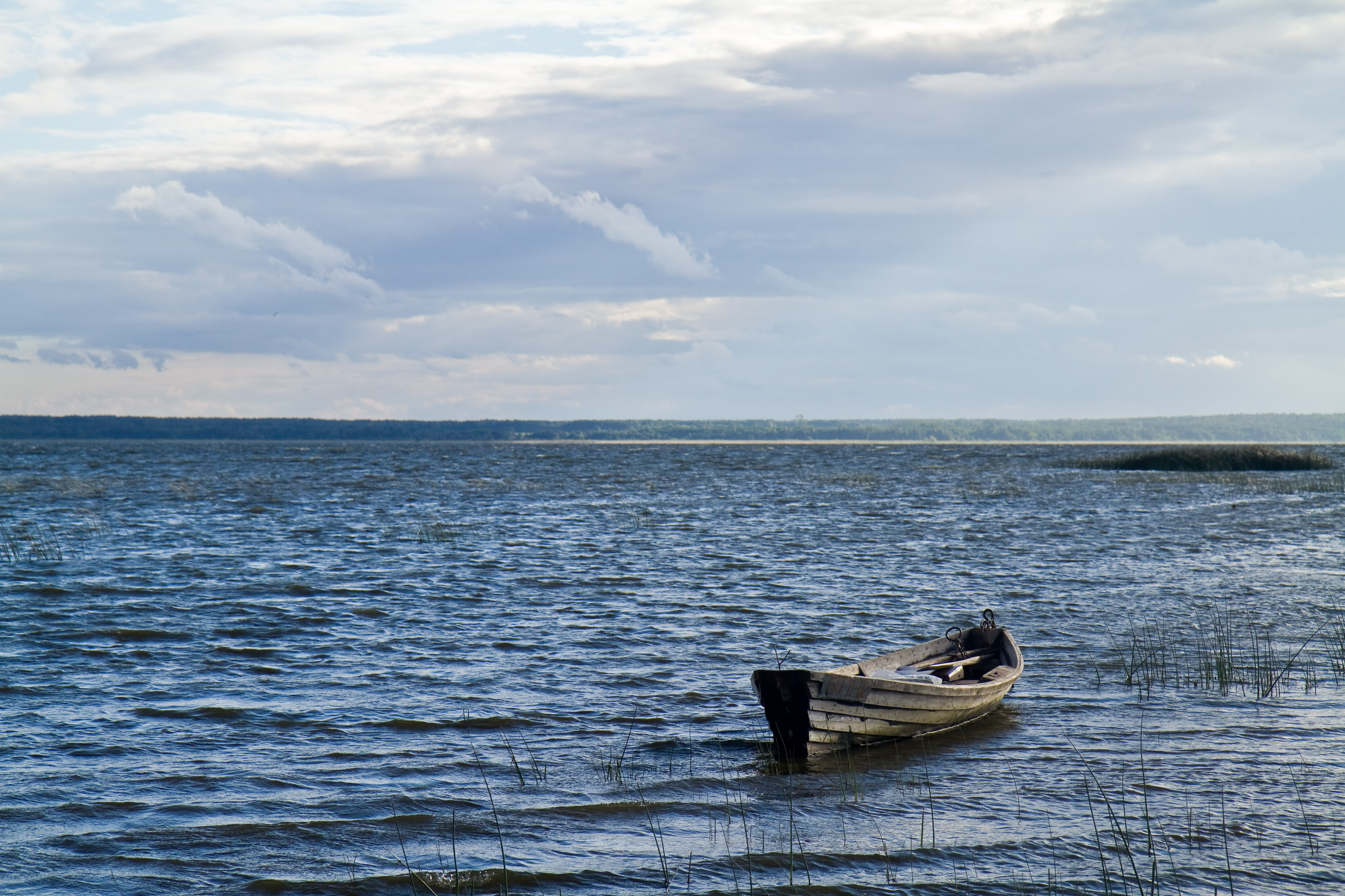 Dryviaty Lake. Brasłau district, Viciebsk province, Belarus.